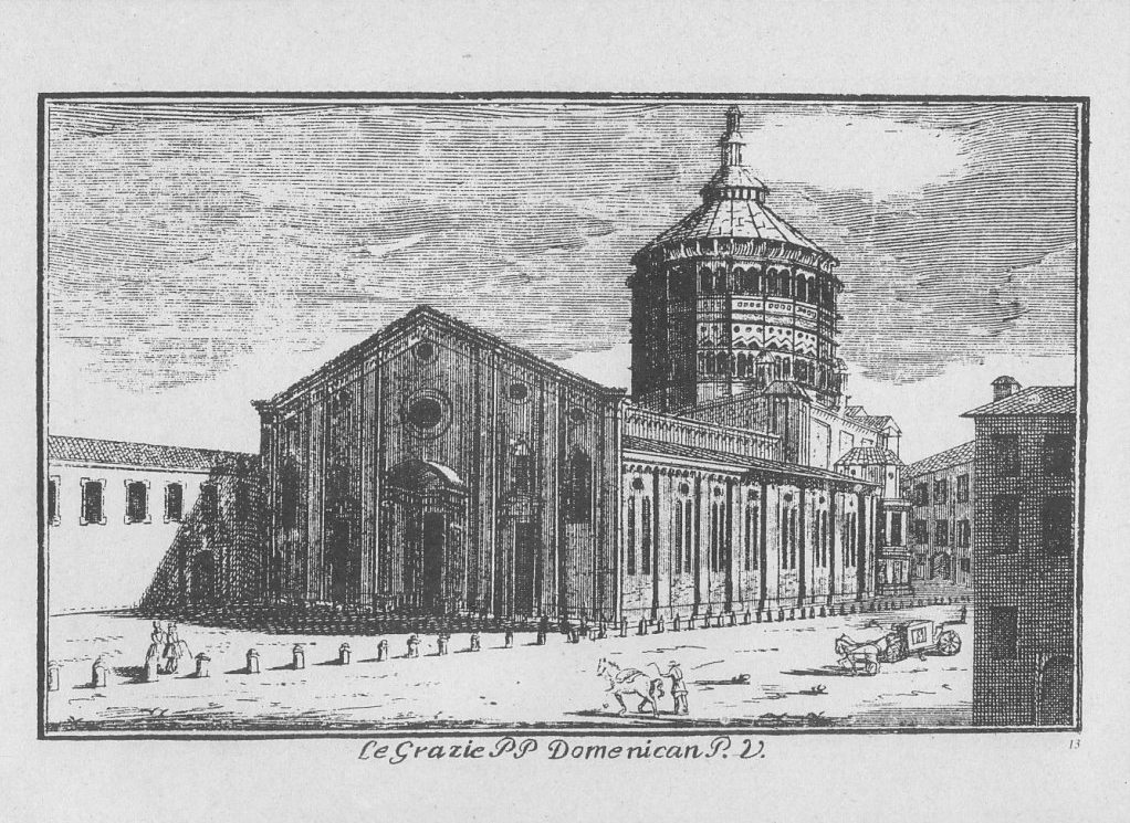 Marc'Antonio Dal Re (1697-1766), Santa Maria delle Grazie (Dominican friars) in Milan. This engraving is # 13 from a set of 88 Vedute di Milano ("Views of Milan") published by Del Re around 1745.